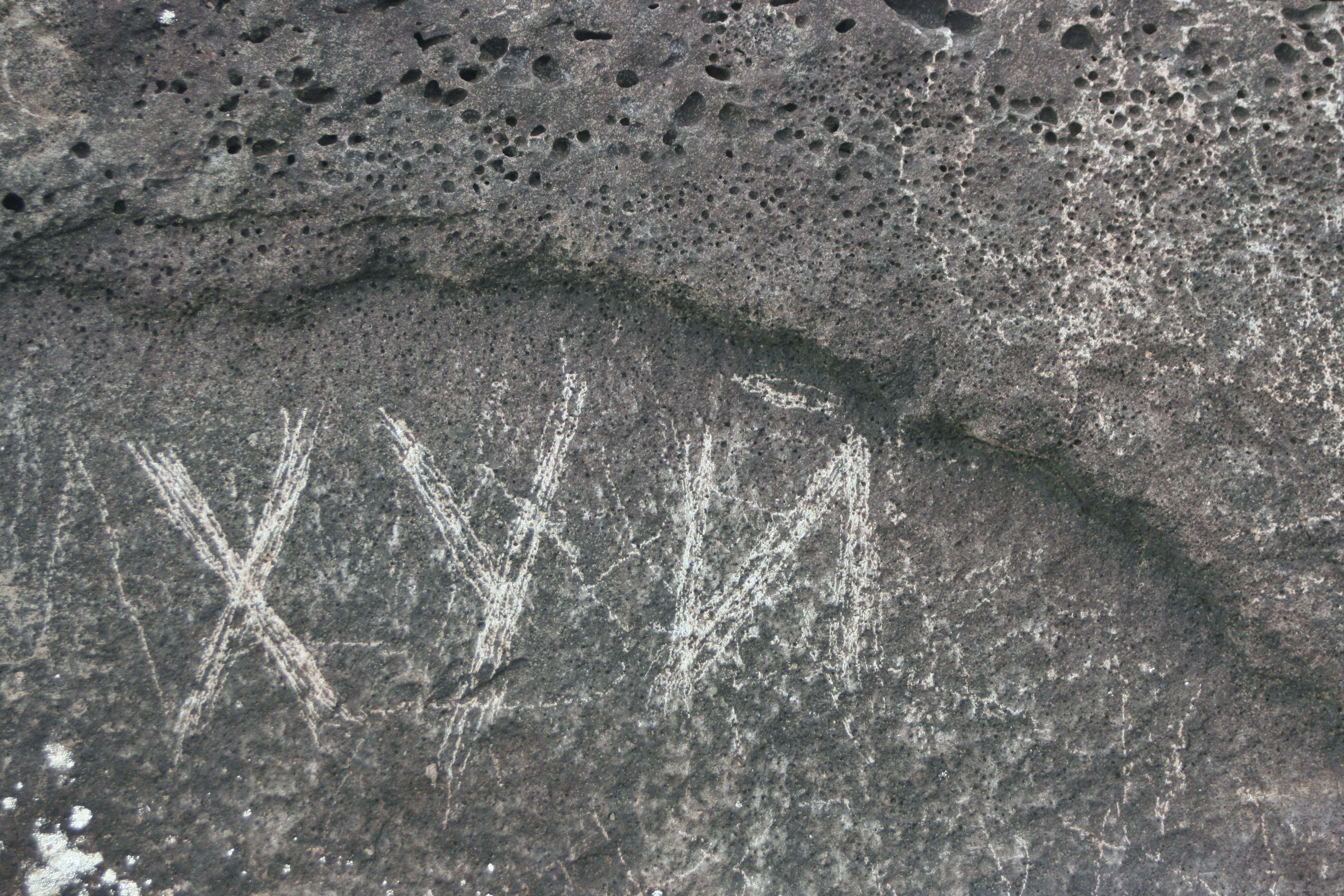 Russian dirty word (dick in English) on rocks, Oahu, Hawaii